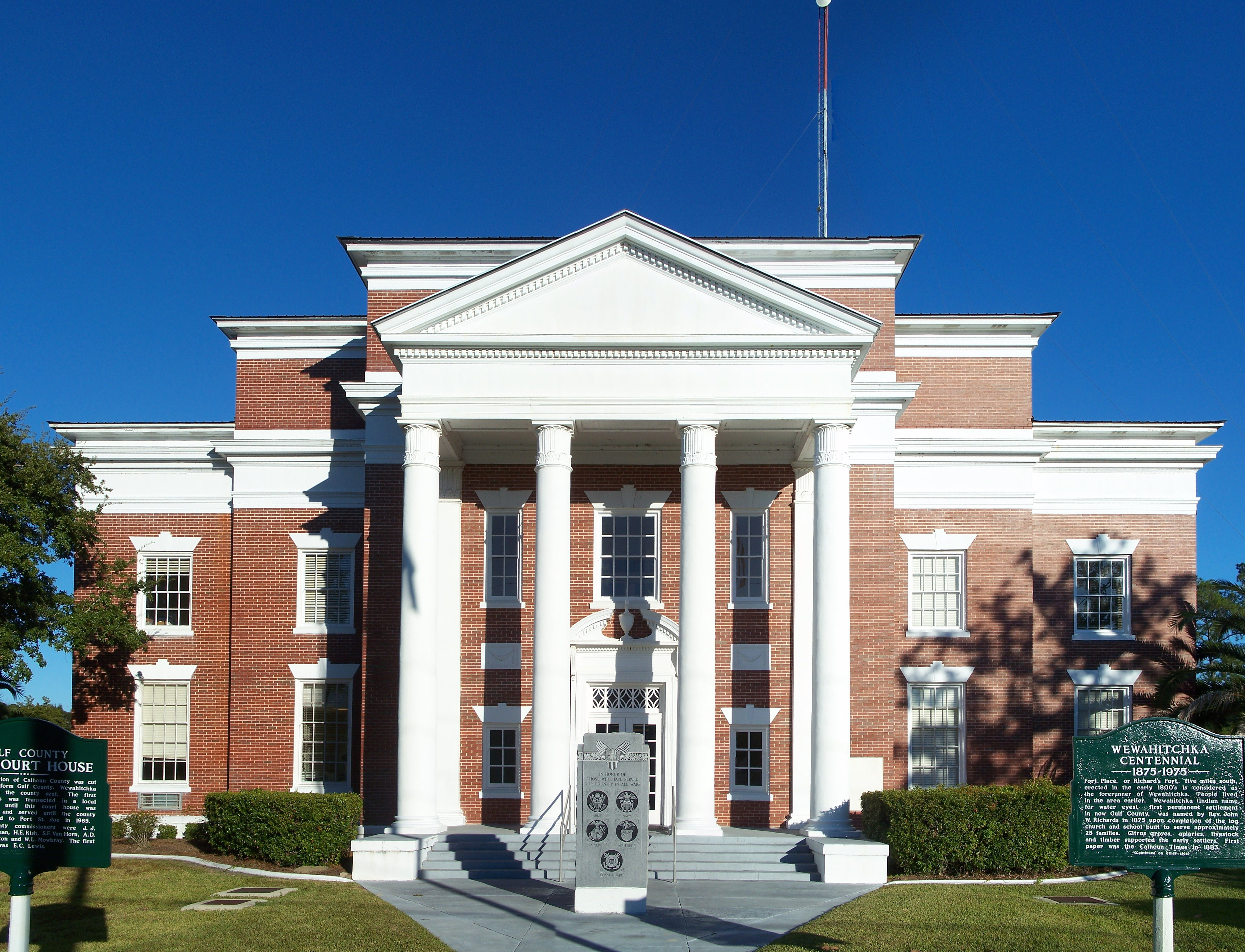 Wewahitchka, Florida: Old Gulf County Courthouse